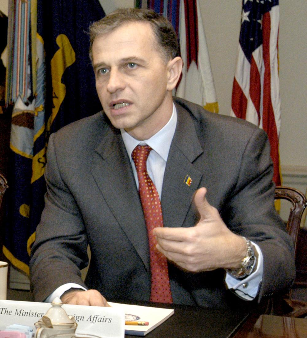 Romanian Minister of Foreign Affairs Mircea Geoana (in a meeting with U.S. Deputy Secretary of Defense Paul Wolfowitz, not shown) in the Pentagon on Feb. 4, 2004. Under discussion is a broad range of bilateral security issues. Also participating in the talks is Romanian Ambassador to the United States Sorin Ducaru (not shown).